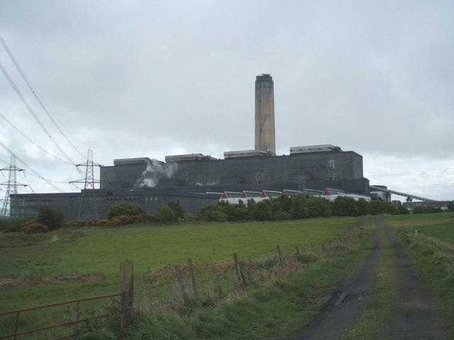 Longannet Power Station - From North Started to rain as I made my way down the track, so building's more grey than usual. Given permission to park on private land and wander down.